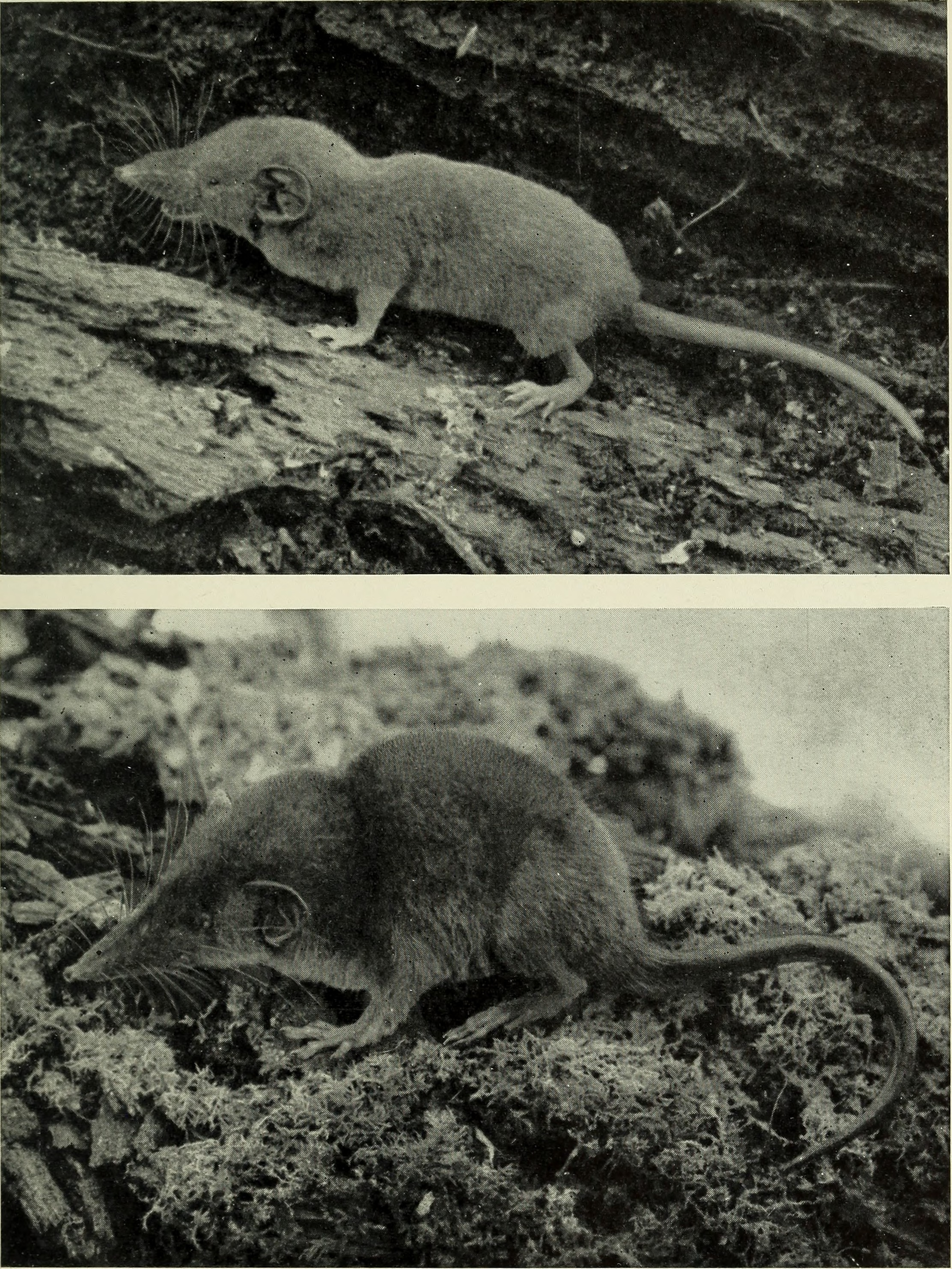 Top: Crocidura jacksoni denti Dollman. Female adult. Bottom: Sylvisorex oriundus Hollister, female adult. Title: The Congo Expedition of the American Museum of Natural History Year: 1919 (1910s) Authors: Osborn, Henry Fairfield, 1857-1935; American Museum of Natural History Subjects: Natural history; Mammals Publisher: New York : American Museum of Natural History